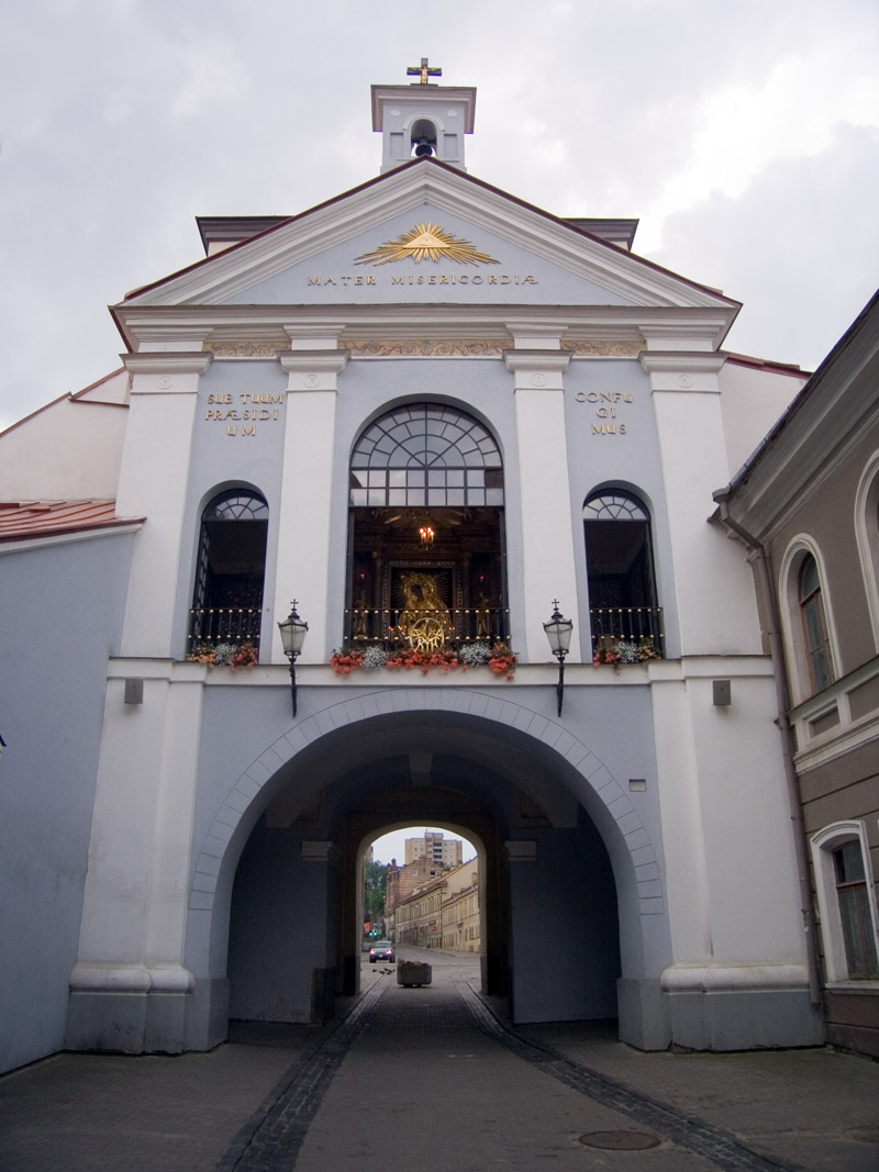 Dawn Gate